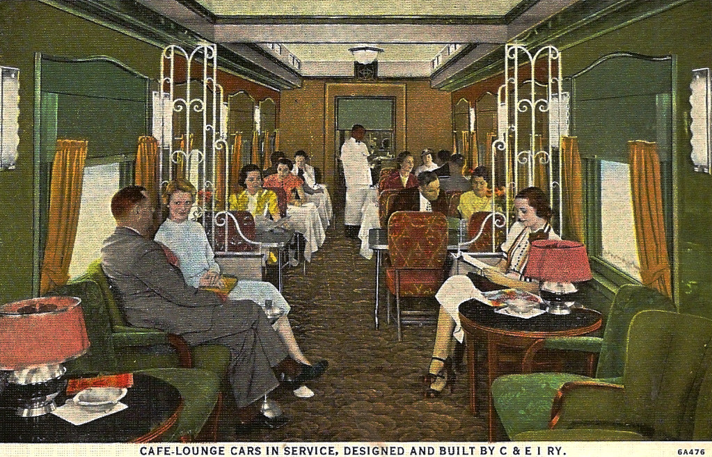 Postcard photo of the interior of a Chicago and Eastern Illinois cafe-lounge car. The railroad built these cars in their own shops.